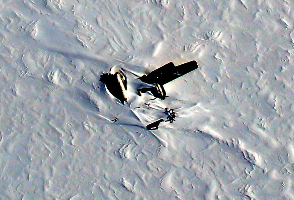 The image above shows the Kee Bird, a wrecked B-29 Superfortress that made an emergency landing on a northwest Greenland ice sheet in 1947. The image was acquired on May 1, 2014, by the Digital Mapping System (DMS), an instrument attached to NASA’s P-3 Orion airplane for the Operation IceBridge campaign.